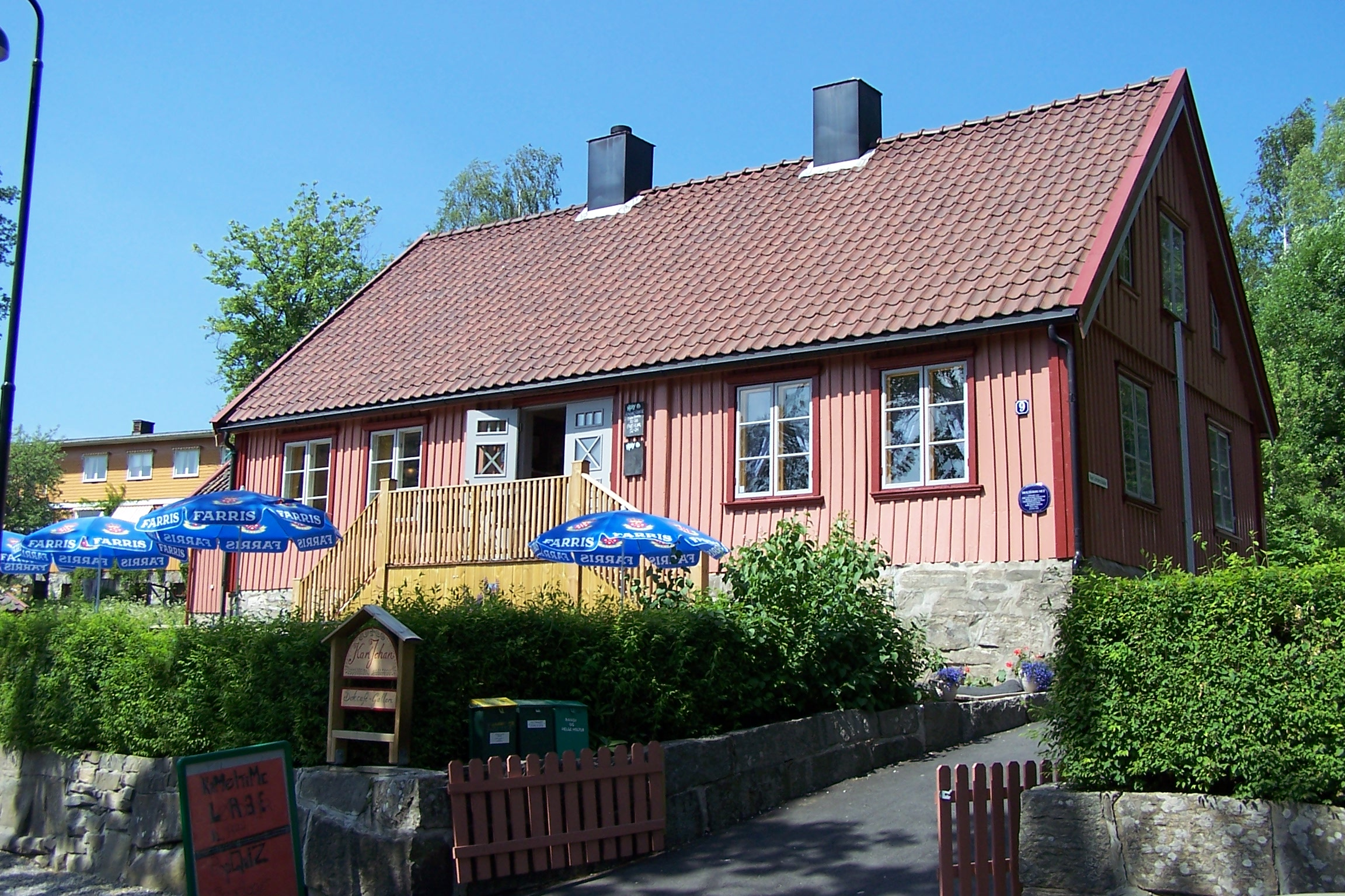 Hølen, "Holterhuset". Built 1850, used as school and schoolmaster's residence until 1878, from 1870 until 1962 as post office, from 1908 to 1927 as a public library, from 1900 to 1943 municipal offices and from 1912 to 1975 as telephone central. In 2006 a café was opened in the building.